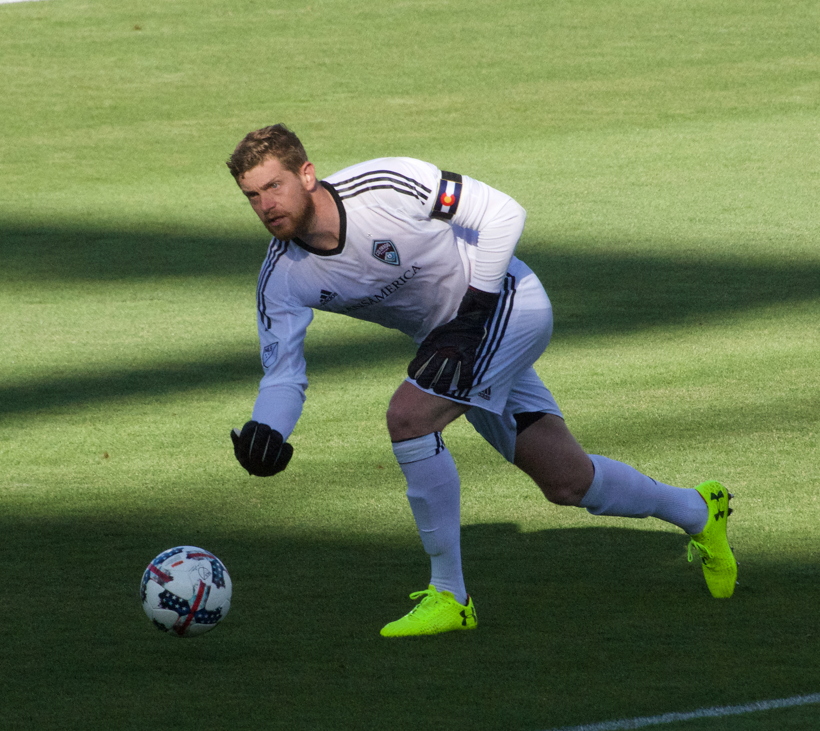 Zac MacMath of Colorado Rapids rolls the ball to a teammate. Avaya Stadium, 29 July 2017.